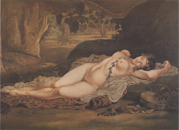 Greek painter Spiridon Gazis (1835-1920) : "The sleeping beauty ", 1890